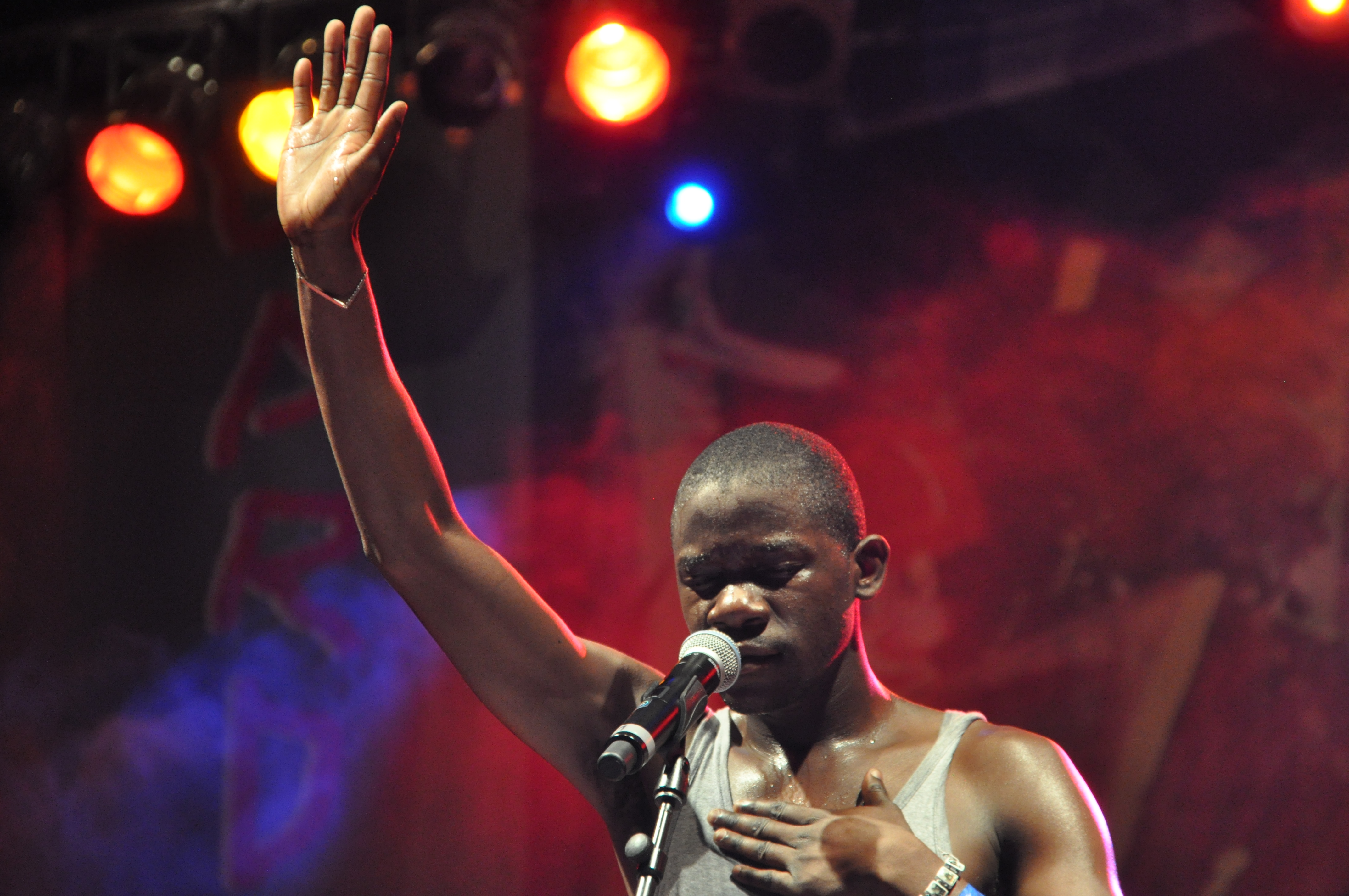 Mokoomba (Zimbabwe), appearence at the 38th music festival "Bardentreffen" 2013 in Nuremberg, Germany, Hauptmarkt stage